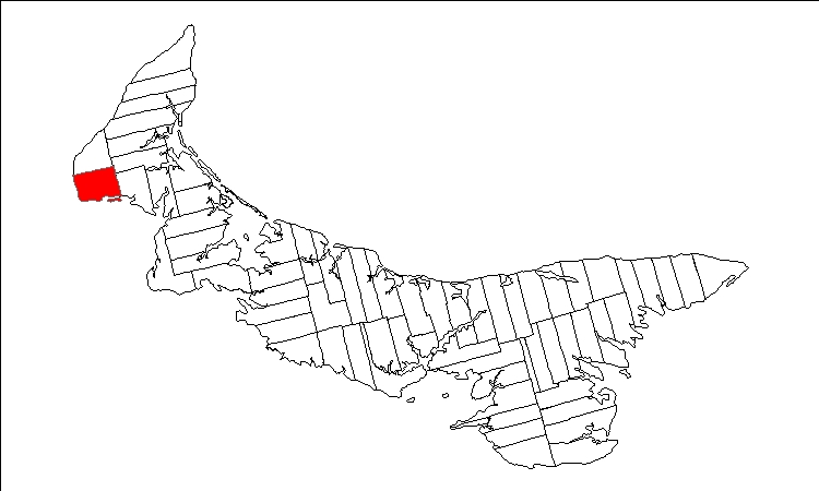 Public domain map of Prince Edward Island created by User:Plasma east with data courtesy of Geogratis, modified to show townships. Released under GFDL (self).